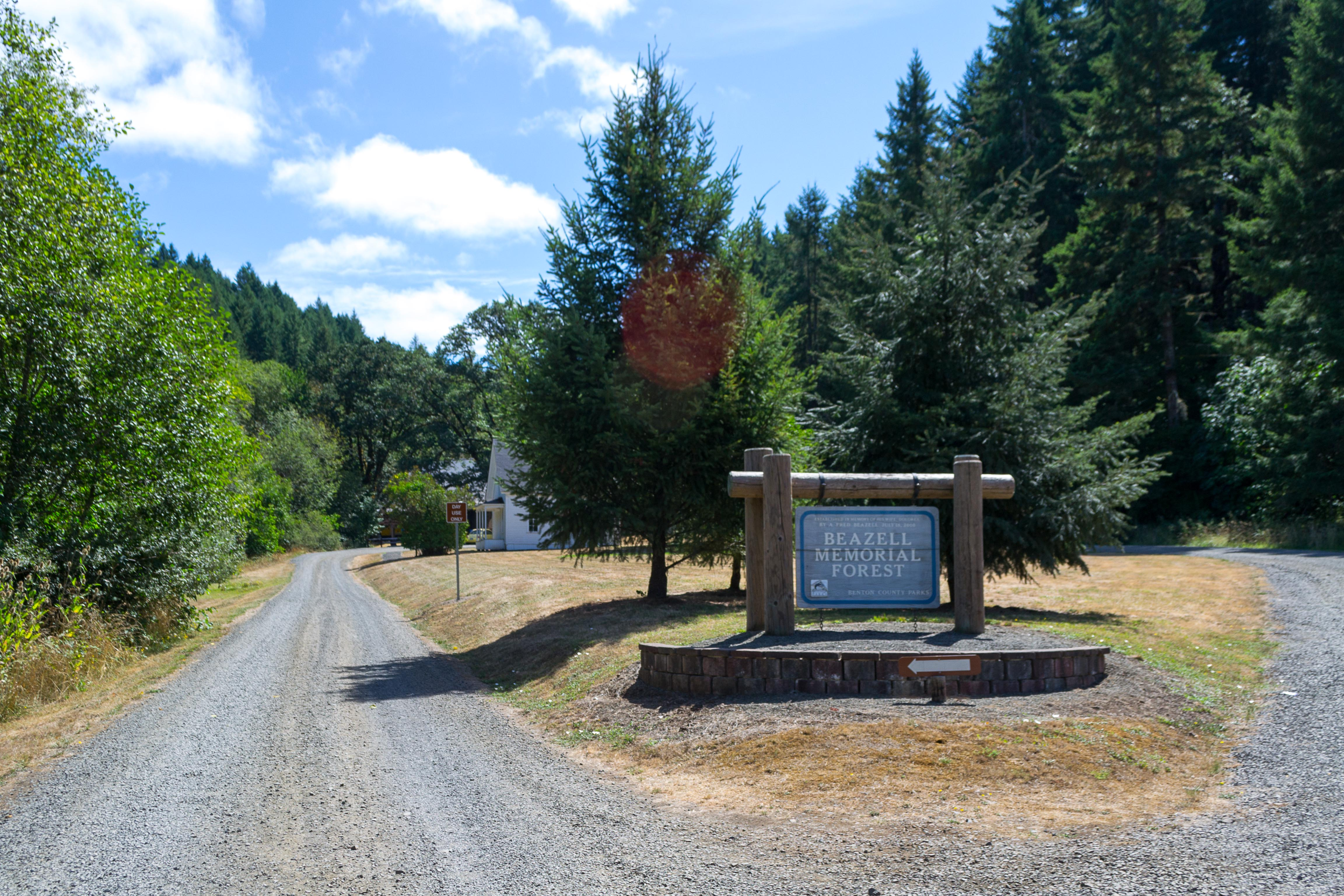 The Beazell Memorial Forest on Kings Valley Highway in Benton County, Oregon